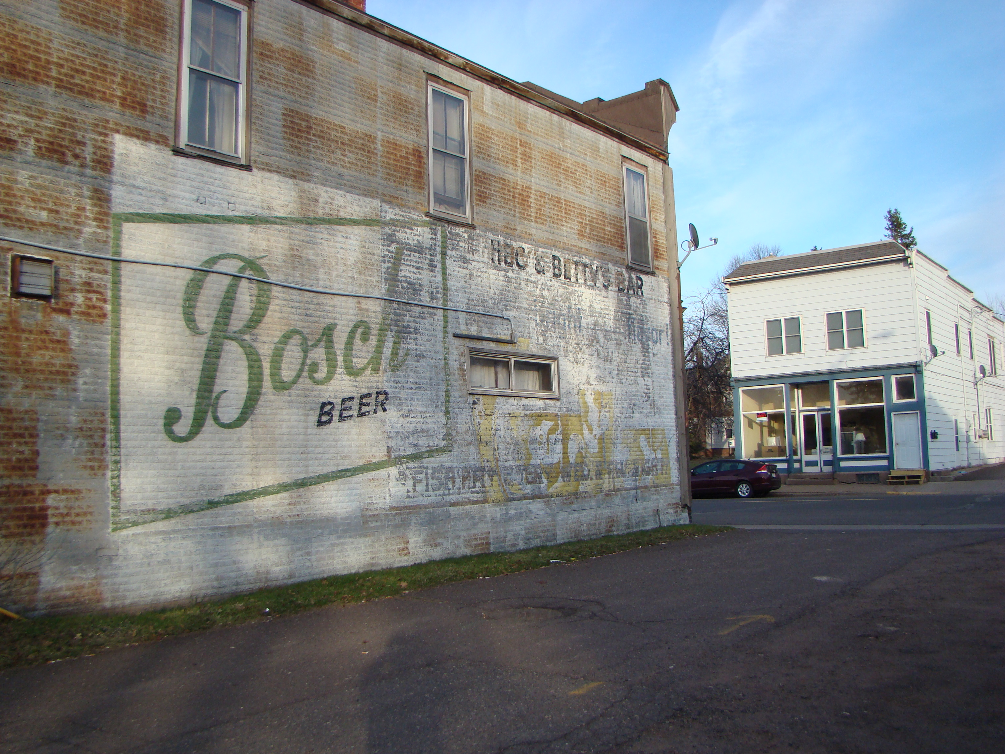 A Bosch Beer sign, painted on the side of a building in Ashland, Wisconsin.